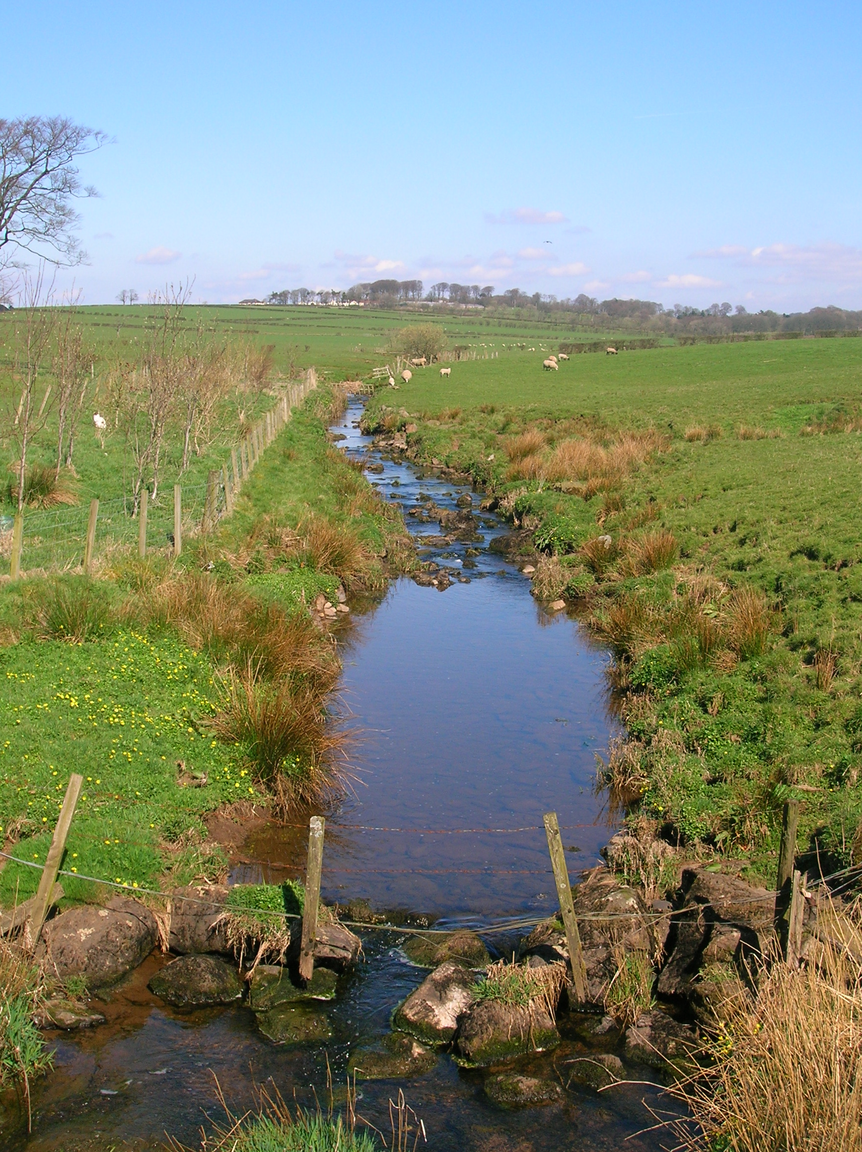 The Clerkland Burn looking towards Dunlop at West Clerkland farm, East Ayrshire, Scotland. 2007.